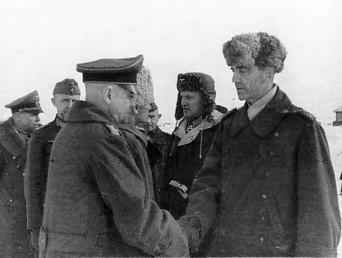 Field Marshal Paulus meets with Colonel General Heitz and other German officers, captured in Stalingrad. Photographed here are Generalleutnant Alexander Edler von Daniels (far left), Generalleutnant Hans-Heinrich Sixt von Arnim (2nd left), Generaloberst Walter Heitz (3rd left), Oberst Wilhelm Adam (2nd right) and Generalfeldmarschall Friedrich Paulus (far right)